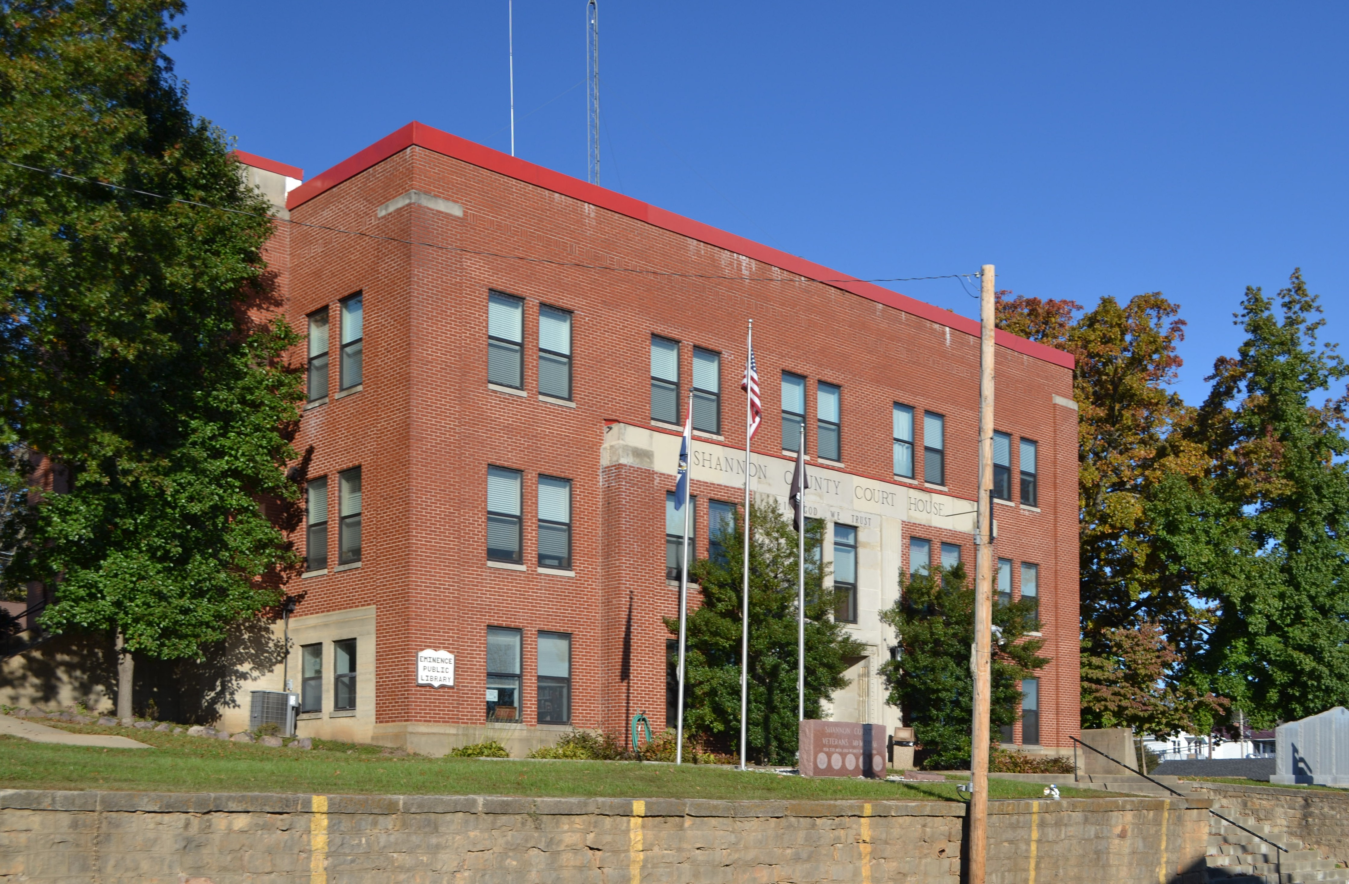 County courthouse for Shannon County, Missouri in Emminence, Missouri